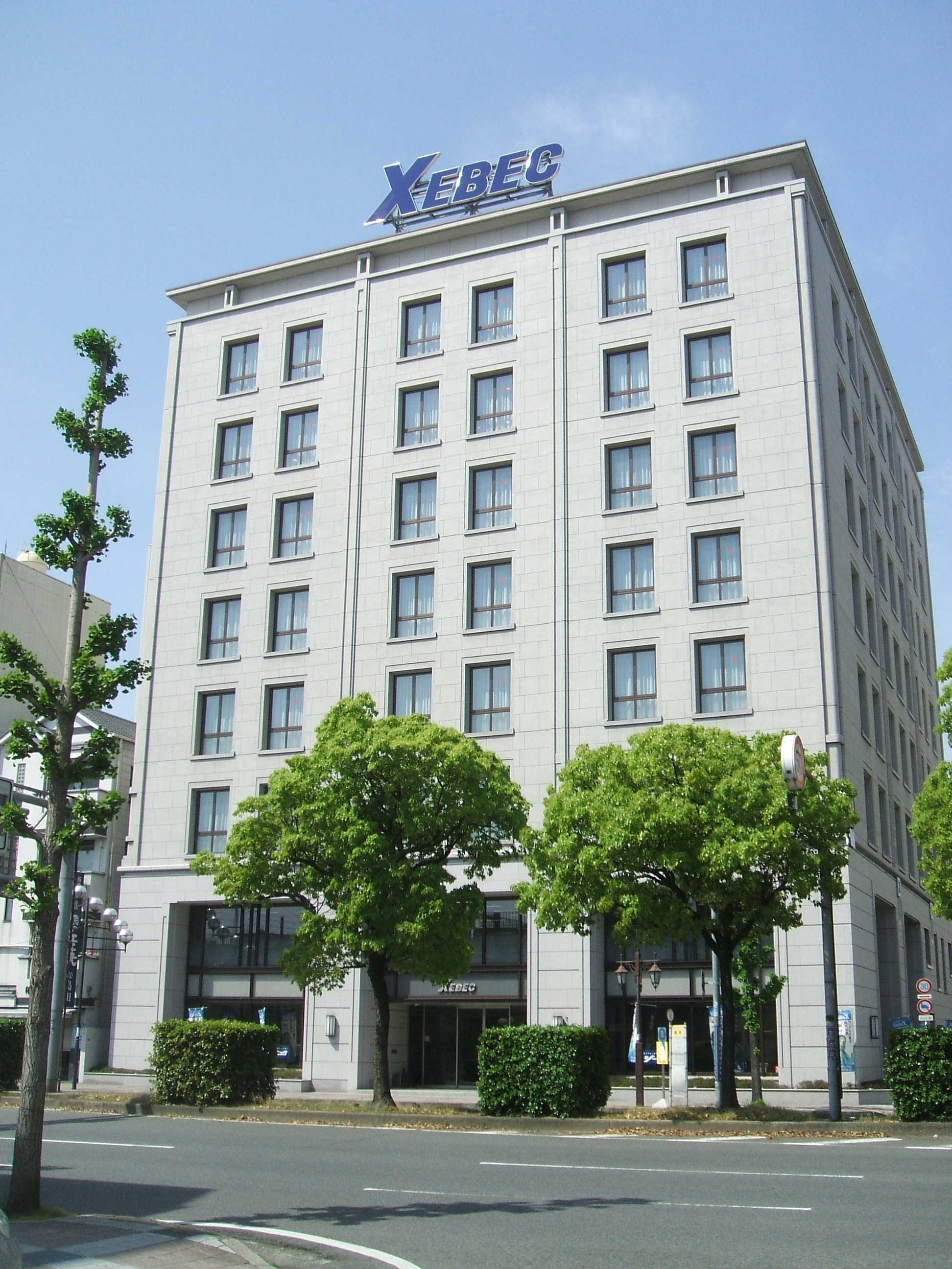 Headquarters of Xebec Co., Ltd. in Fukuyama City, Hiroshima Prefecture, Japan